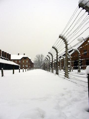 View of the Auschwitz I.